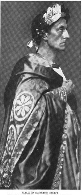 Johnston Forbes-Robertson as Julius Caesar ca. 1906